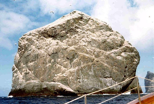 Stac Lee. 40,000 pairs of gannets nest here, on Stac an Armin (in the distance), and on the adjacent island of Boreray. It is the largest gannetry in the world.